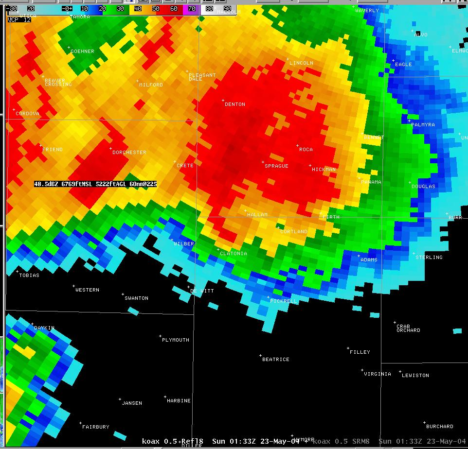 Radar image of the supercell that spawn the devastating tornado in Hallam, Nebraska on May 22, 2004.